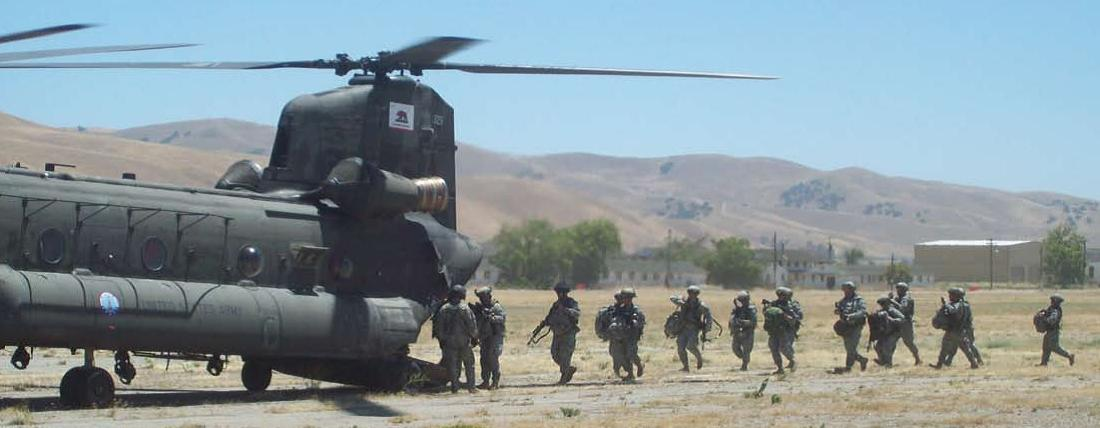 184 Air Assault Training at Camp Roberts, California.